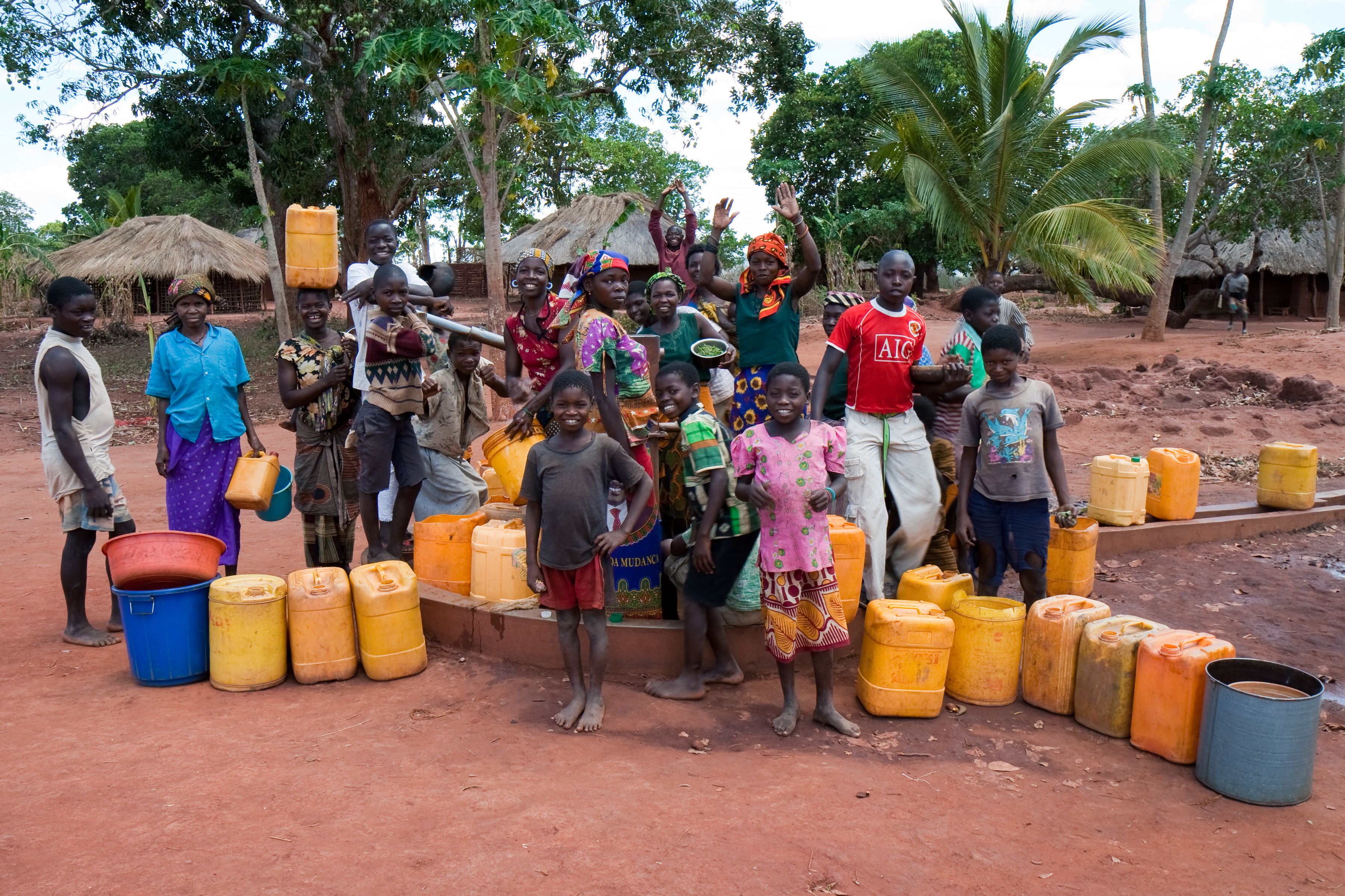 Women, children and plastic tanks at the well of Nivali, Nampula, Mozambique.